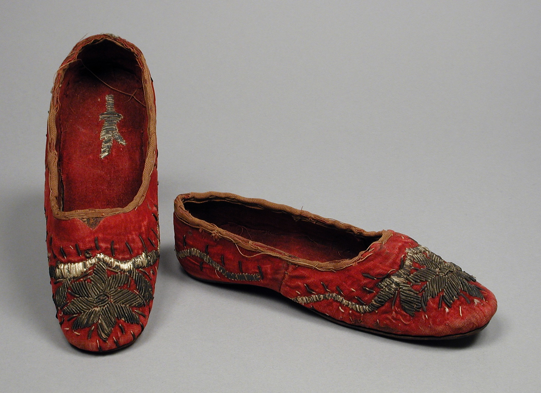 Turkey, 1860-1880s Costumes; Accessories Silk velvet, gilt metal embroidery, leather 6 1/2 x 1 7/8 x 1 1/2 in. (16.51 x 4.76 x 3.81 cm) each Mrs. Alice F. Schott Bequest (M.67.8.186a-b) Costume and Textiles